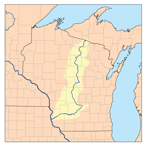 Map of the Wisconsin River watershed. Tributary of the Mississippi River.